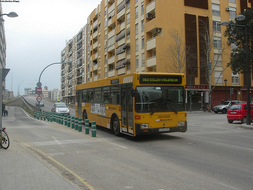 It's a bus of Metrobus company